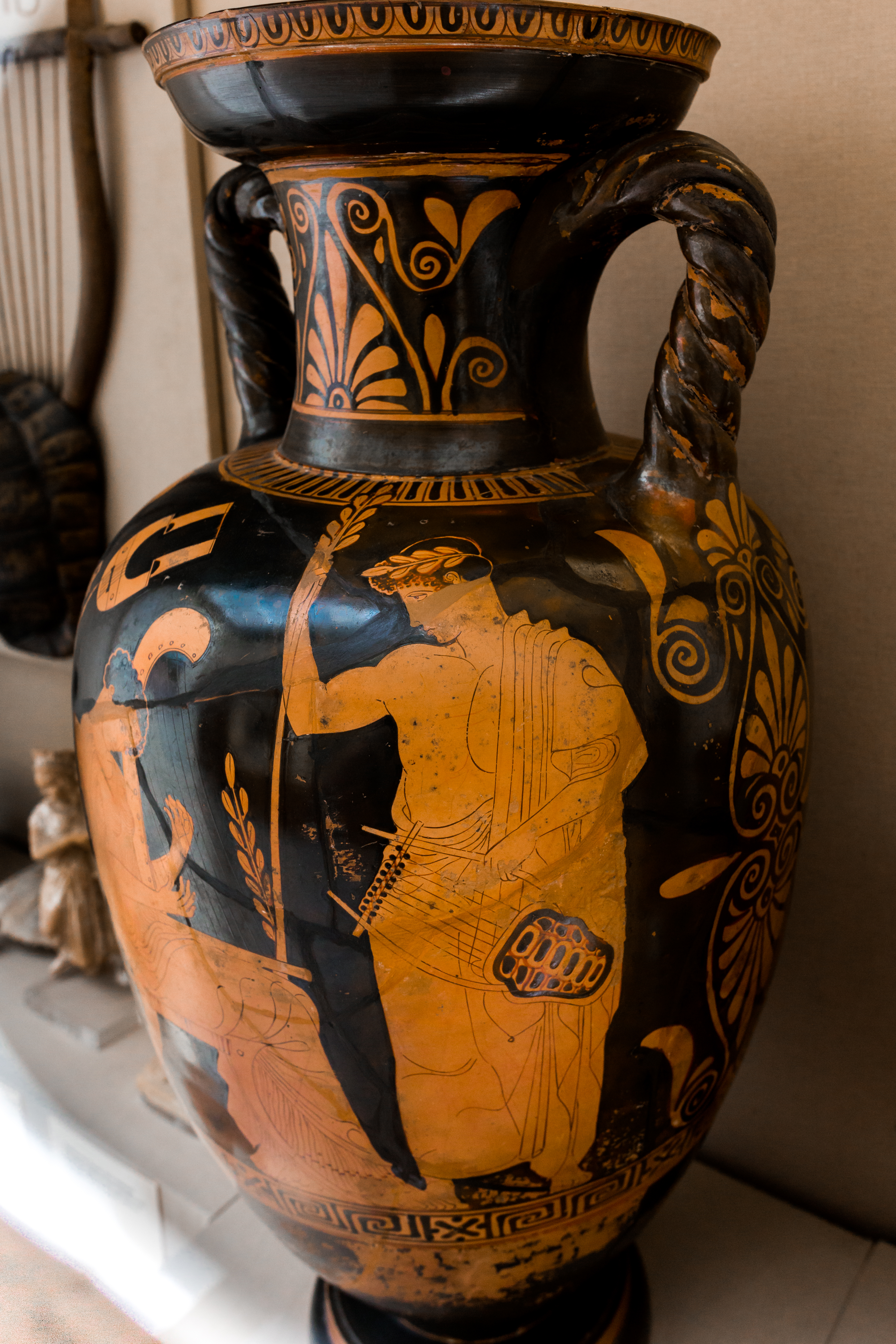 object type / vase shape: attic red figure neck-amphora with twisted handles - description side A: Melousa holding auloi, lyra of horse-shoe-form hanging in the background, Terpsichore sitting in a chair playing harp (magadis), Mousaios standing, laurel wreath in the hair, holding a lyra (chelys) and a long staff with laurel leaves at the top; name inscriptions: MELELOSA, TERPSICHORA, MOSAIOS - side B: woman standing between two draped youths leanding on their sticks - production place: Athens - painter: Peleus Painter - period / date: classical, ca. 440 BC - material: pottery (clay) - height: 58,5 cm - findspot: Vulci - museum / inventory number: London, British Museum 1847,0909.7 Cat. Vases E 271 - bibliography: John D. Beazley, Attic Red-Figure Vase-Painters, Oxford 1963(2), 1039, 13 - Susan B. Matheson, Polygnotos and Vase Painting in Classical Athens, Wisconsin 1996, cat. PE 16 - Please note: The above museum permits photography of its exhibits for private, educational, scientific, non-commercial purposes. If you intend to use the photo for any commercial aime, please contact the museum and ask for permission.